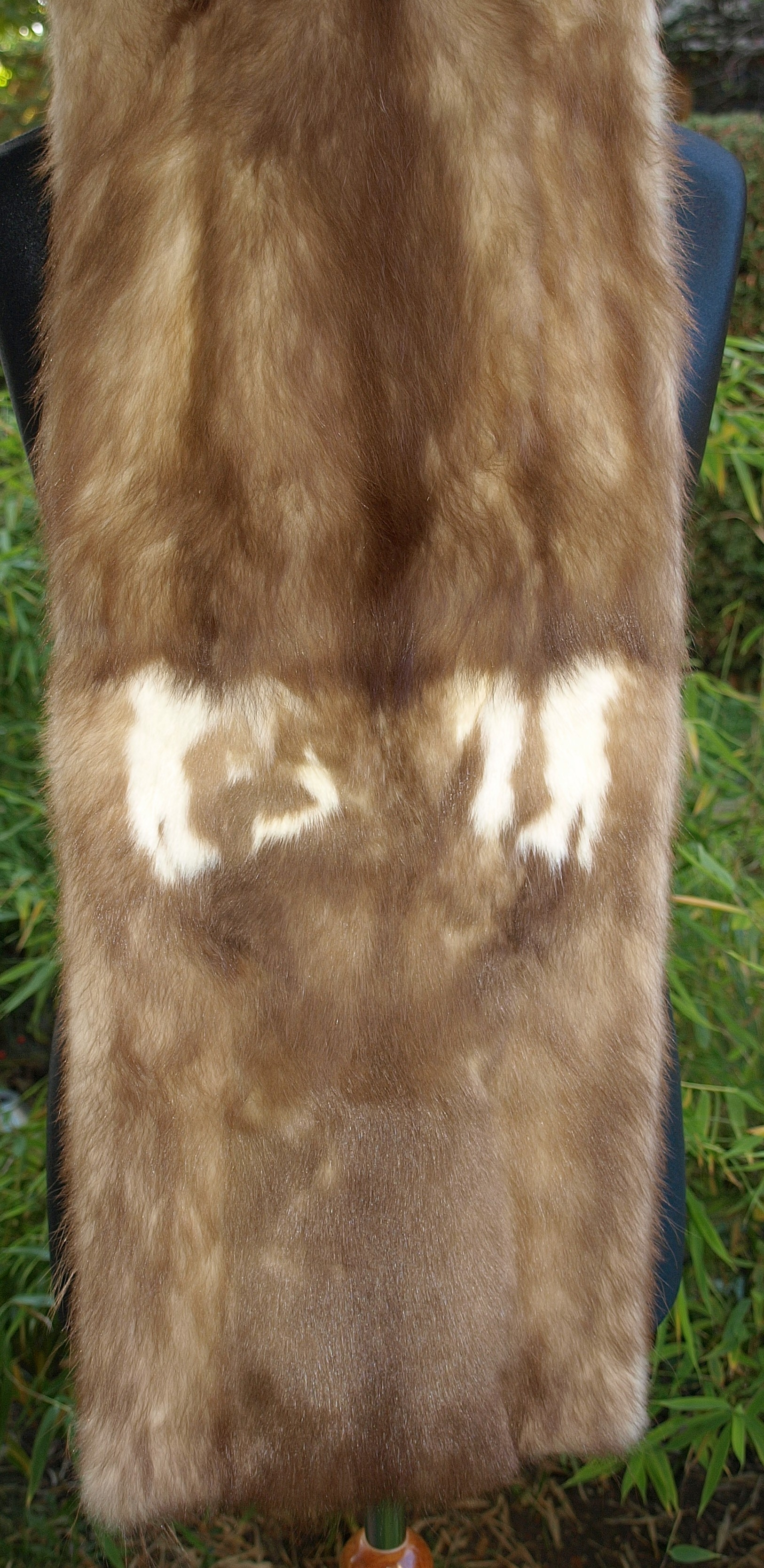 Beech marten (stone marten) fur stole, England c. 1930-1940